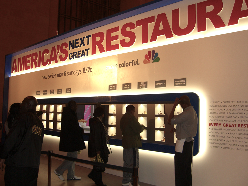 Commuters taking free samples of food inspired by the American reality television program America's Next Great Restaurant, at Vanderbilt Hall in Grand Central Terminal in Manhattan, March 4, 2011. Photographed by Luigi Novi. This photo is not in the public domain. It may, however, be used, modified and published for any purpose, free of charge, only if an easily visible credit to the photographer is placed near the photo in each instance in which it is used. (See licensing information below.) Publication of this photo without this proper attribution constitutes copyright infringement. For more information on my photos, you can contact me here.